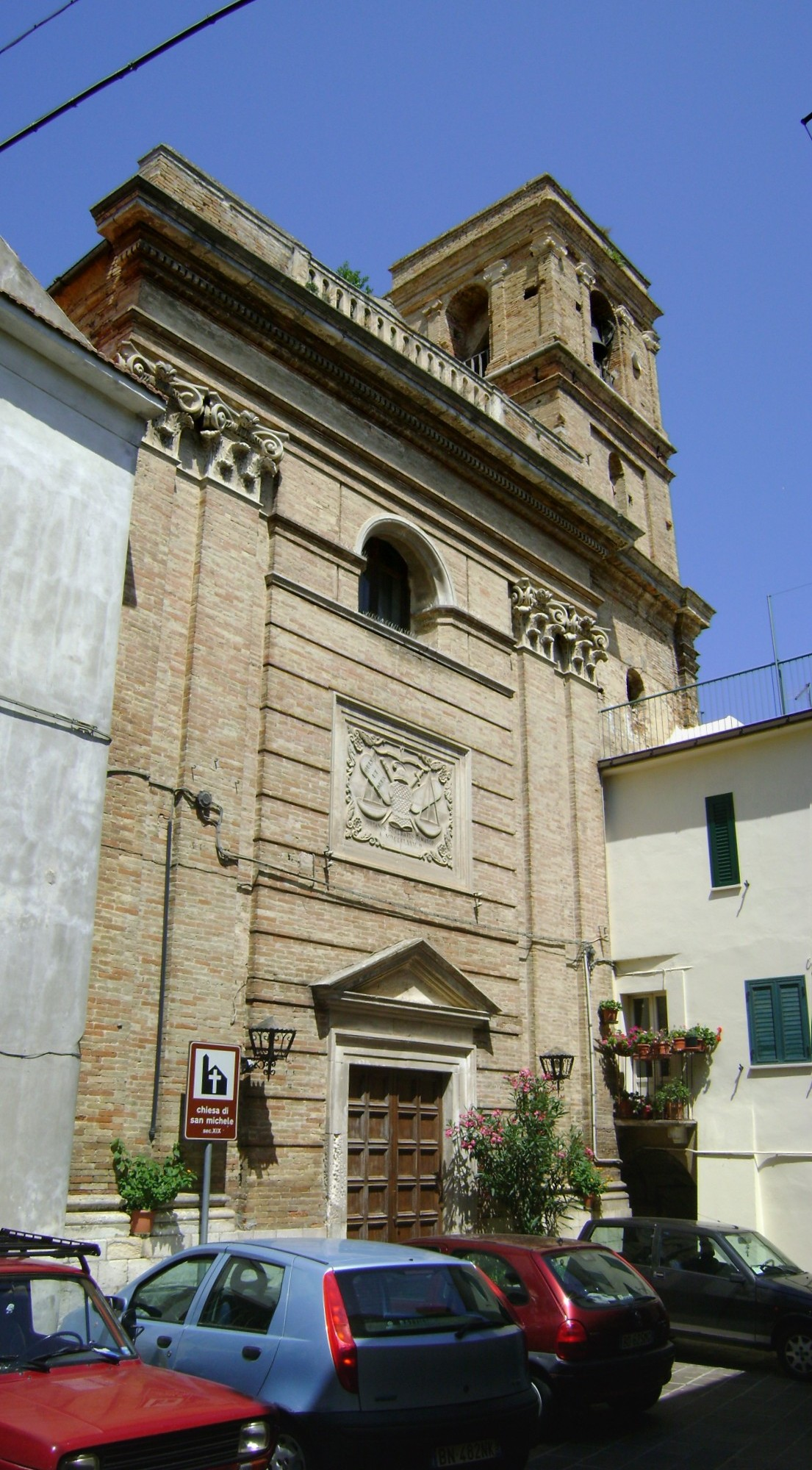 The church of St. Michael, Atessa, province of Chieti, Abruzzo